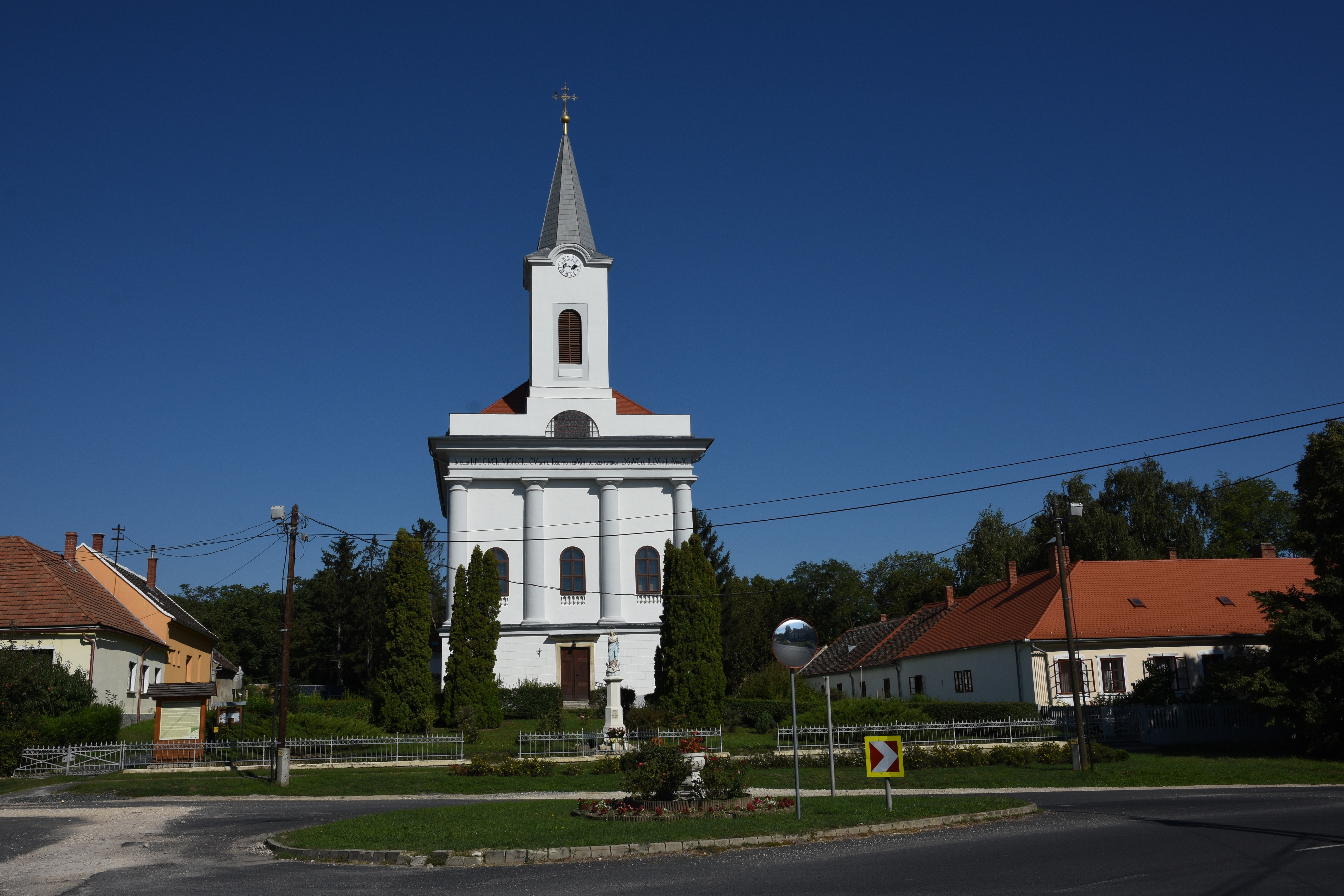 Church Szent Kereszt felmagasztalása templom (Hegyfalu)